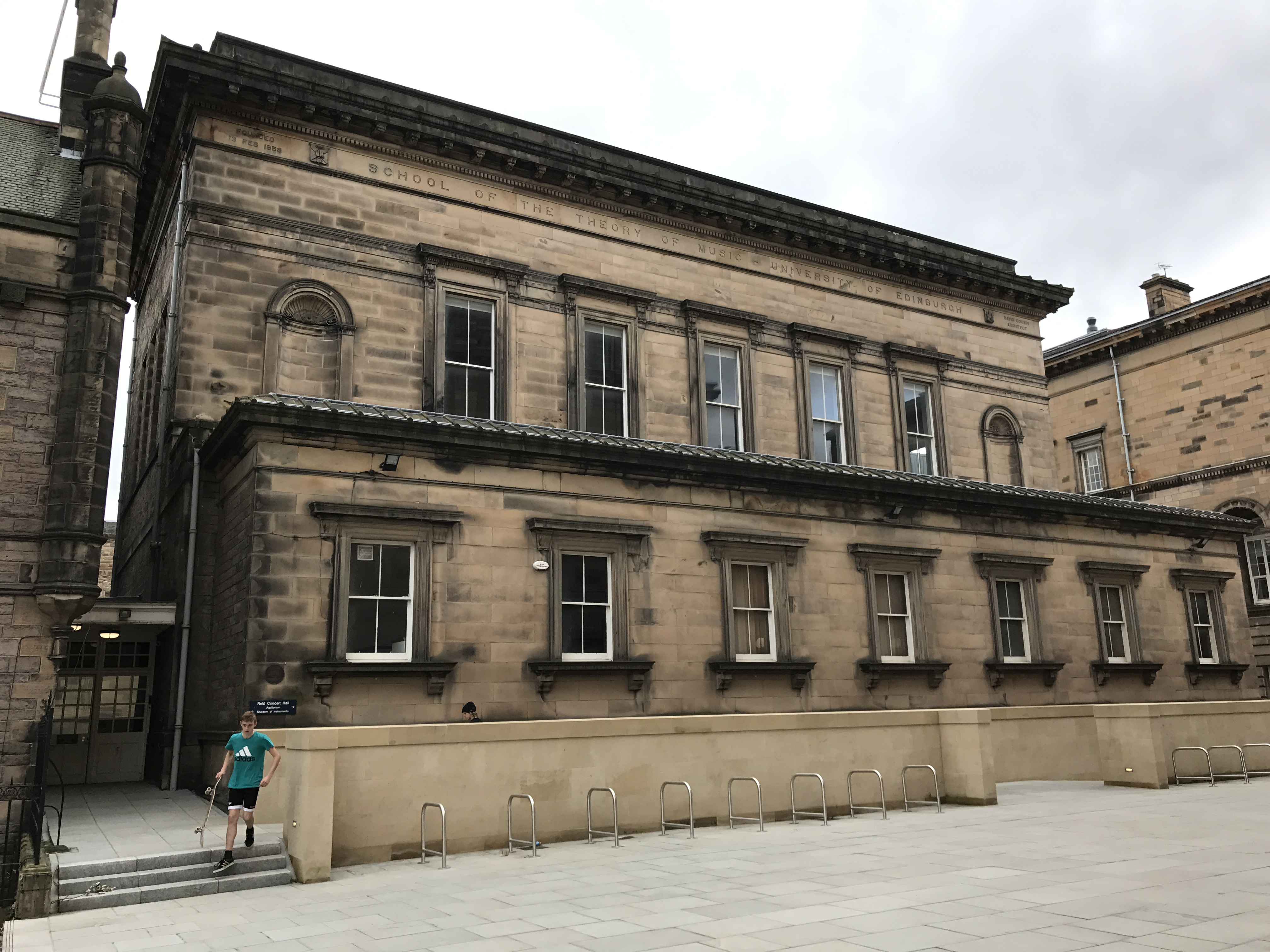 Edinburgh, Teviot Row, University Of Edinburgh, Reid School Of Music Wikidata has entry Q17570919 with data related to this item.